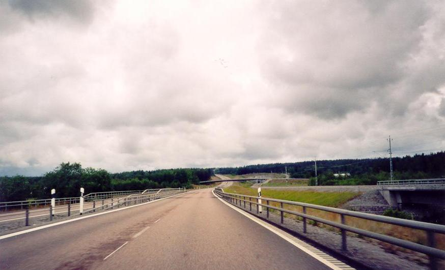 European route 4 between Söderhamn and Enånger. This part of the E4 is more narrow than normal motorways in Sweden and was initially not classified as a motorway. But some years after the opening motorway signs were put up. Foto: Sebbe Fotot taget: sommaren 2002.